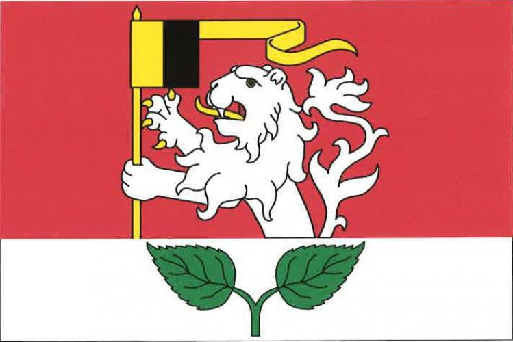 Flag of Březno, Mlada Boleslav District